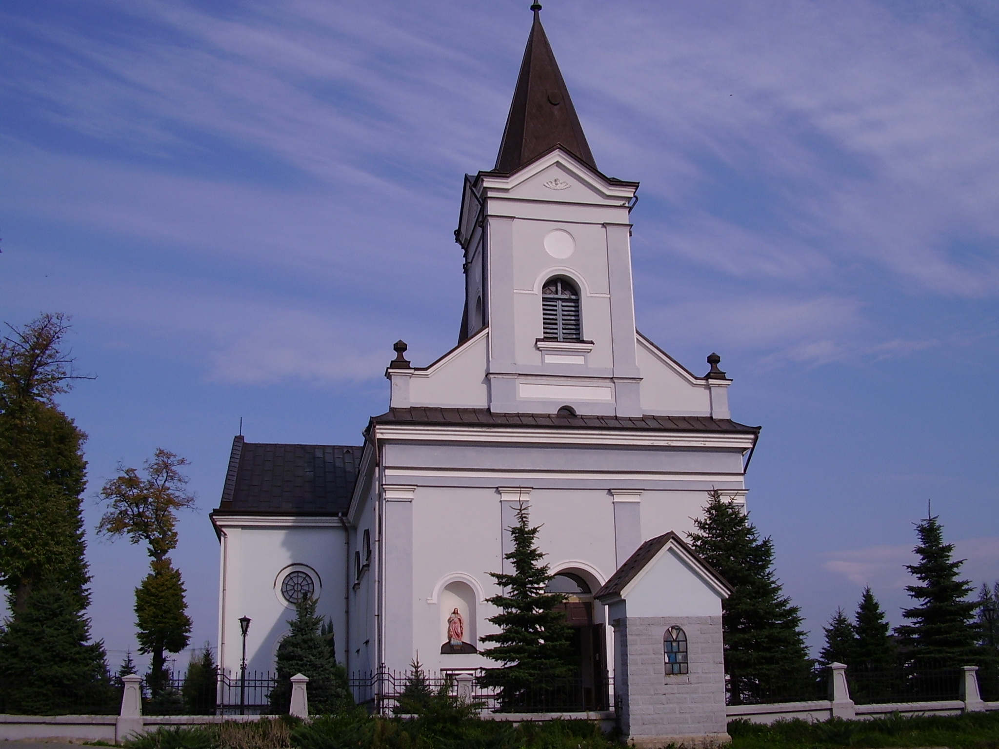 The Holy Trinity's and St. Leopold's Church in Rzezawa (Poland)